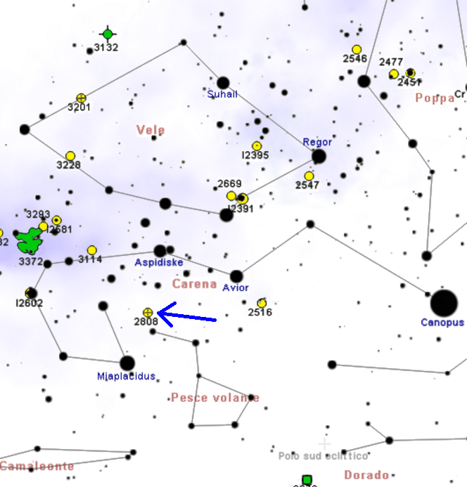 NGC 2808